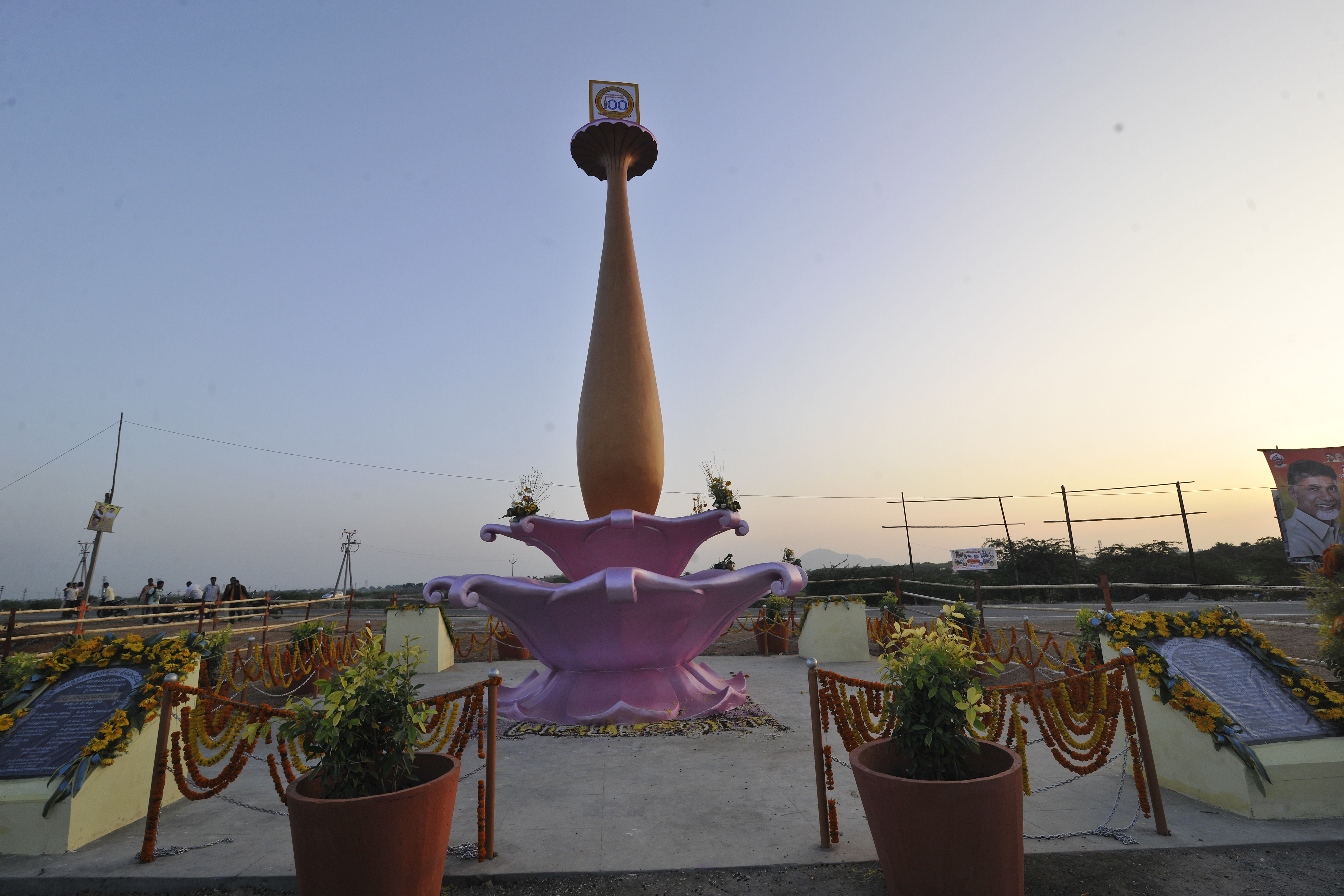 Historical monument built to centenary of Narasaraopet municipality